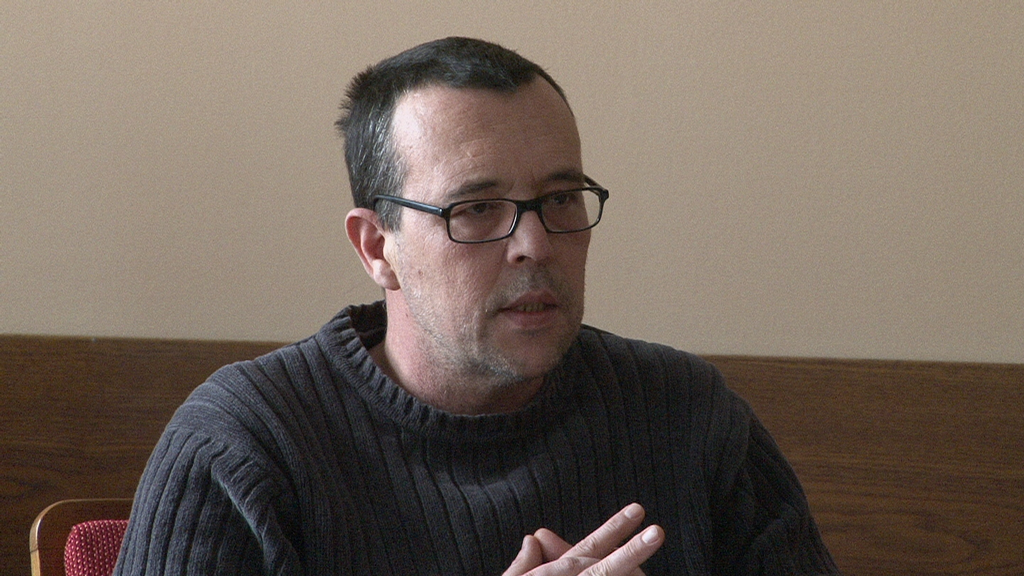 Photo of Janez Cvirn